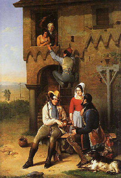 Flirtation at the town gate